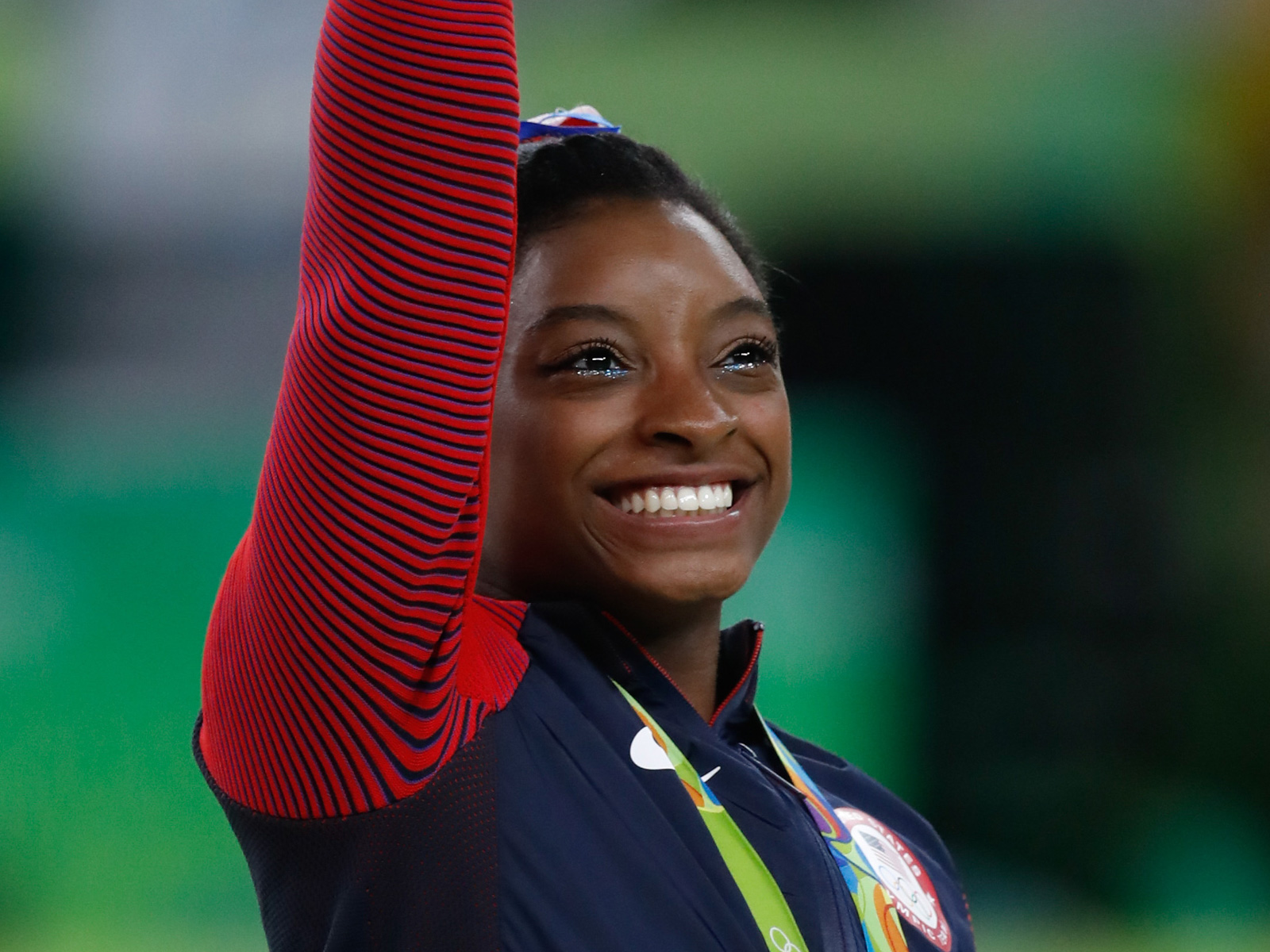 Rio de Janeiro - Simone Biles, ginasta dos Estados Unidos, durante final em que levou medalha de ouro na disputa por equipes feminina nos Jogos Olímpicos Rio 2016. (Fernando Frazão/Agência Brasil)